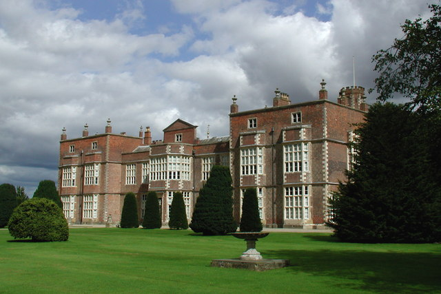 Burton Constable Hall, Burton Constable, East Riding of Yorkshire, England. The 'West Front' of Burton Constable Hall, perhaps more commonly known as 'the back'. Burton Constable Hall is a large Elizabethan mansion set in 300 acres of parkland which was landscaped by Capability Brown in the 1770s.